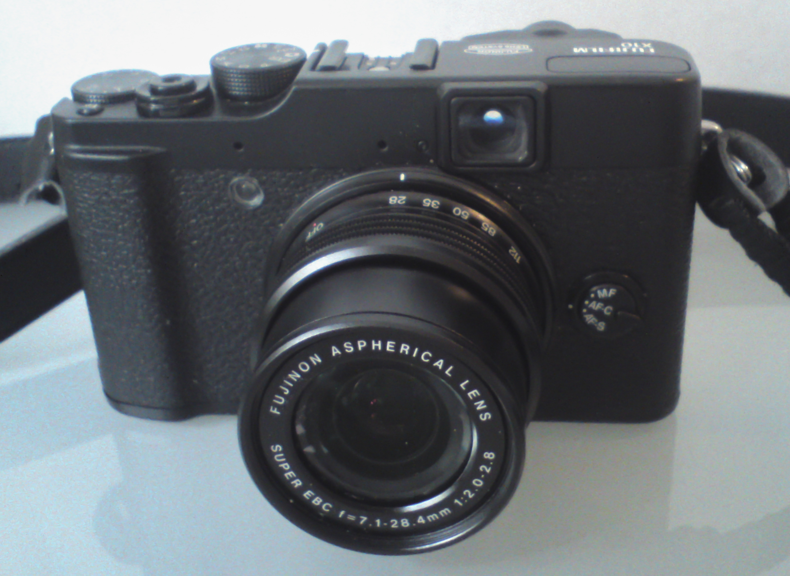 Fujifilm FinePix X10